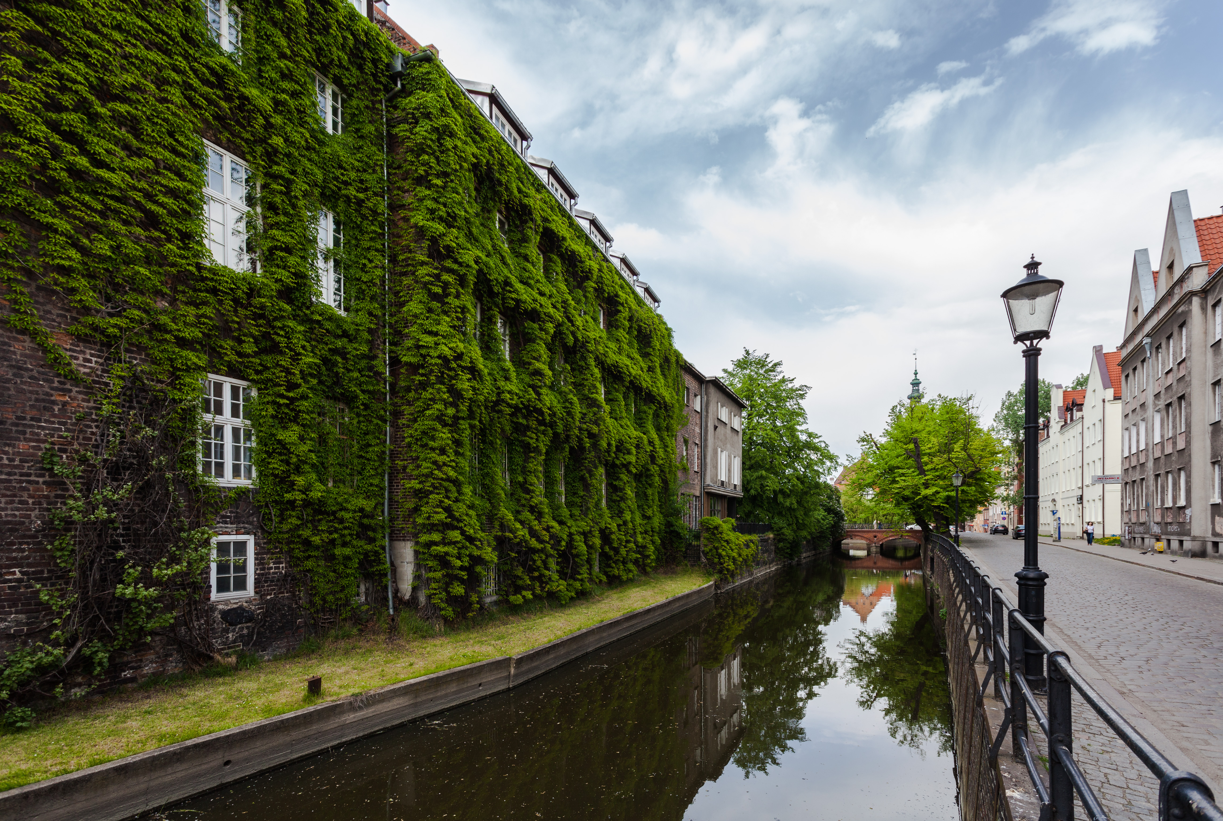 House of the Abbots of Pelplin, Gdansk, Poland